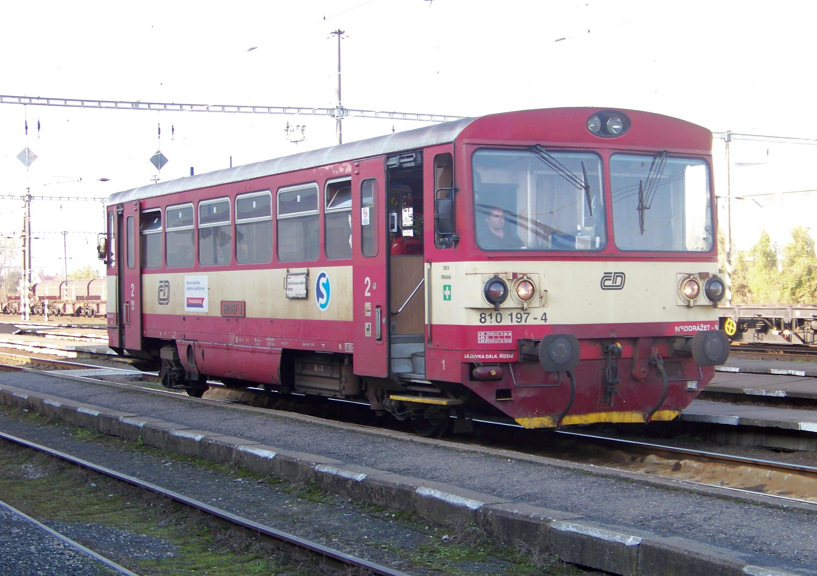 Mělník, Mělník District, Central Bohemian Region, the Czech Republic. Train station Mělník, a motor car.